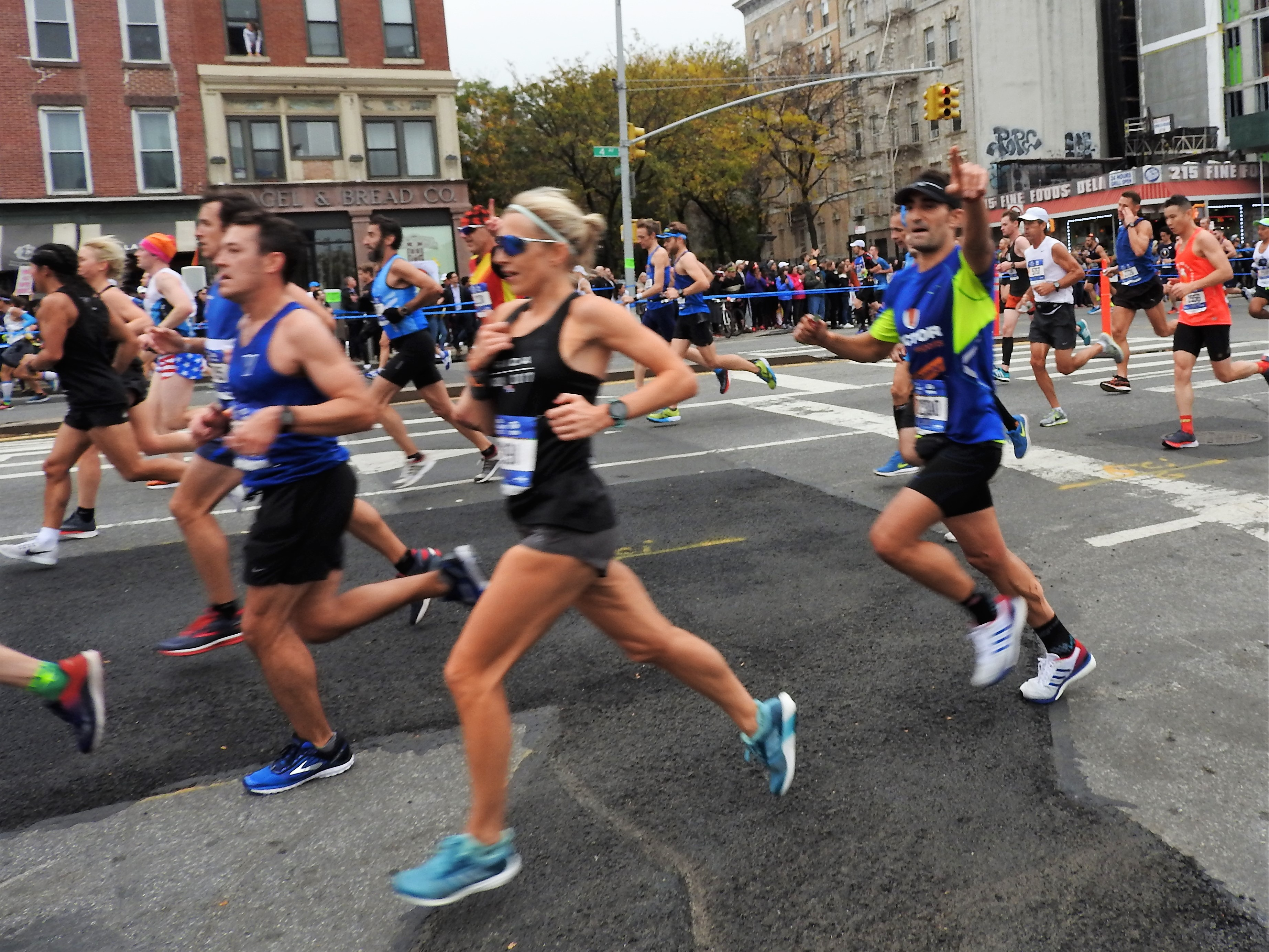 Looking south